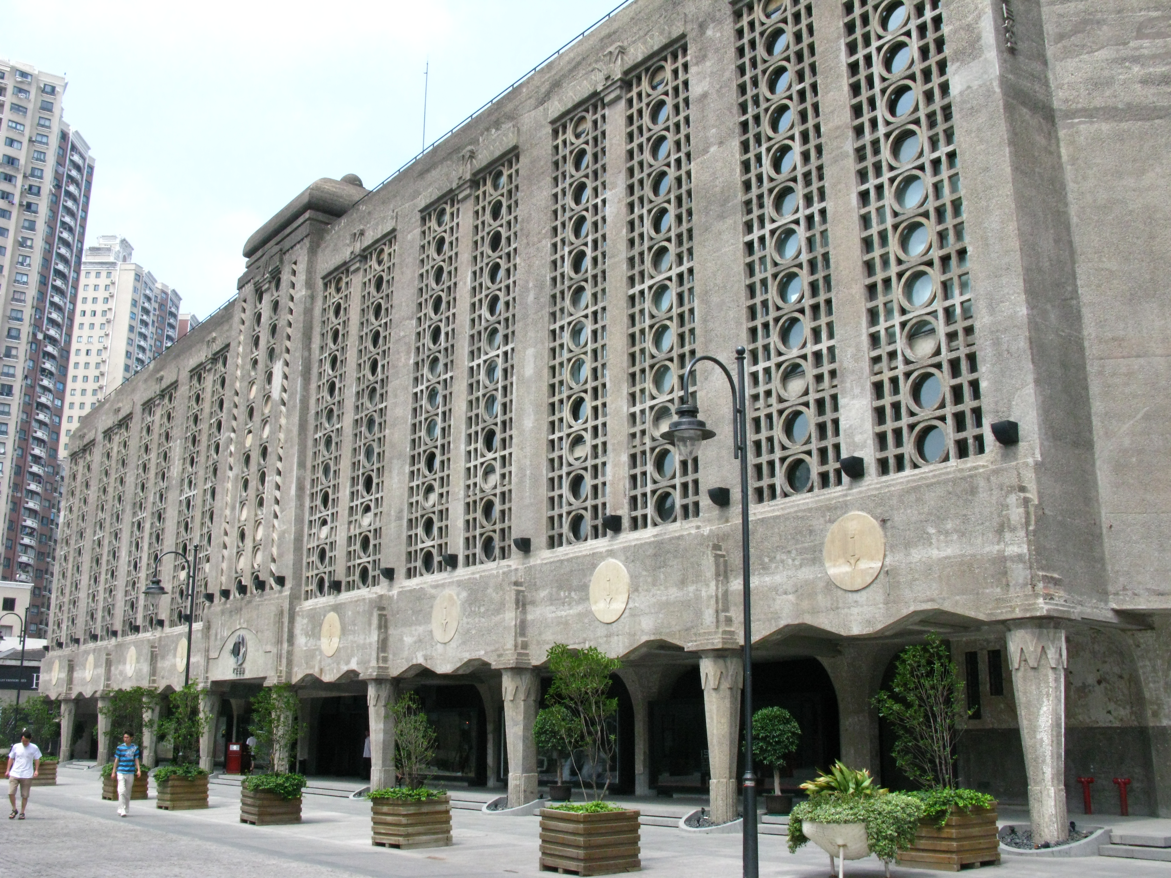 One of the most amazing buildings in Shanghai. Build in the 1930's, the building was once an abattoir and is now converted into a creative center.